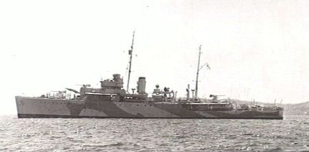 AWM caption: PORT MORESBY, NEW GUINEA. 1941-12-30. PORT SIDE VIEW OF THE SLOOP HMAS SWAN (II) (U74). HER ORIGINAL ARMAMENT OF THREE 4 INCH MARK V GUNS ON MARK III HIGH ANGLE MOUNTINGS AND A QUADRUPLE .5 INCH VICKERS MACHINE GUN MOUNTING ON A BANDSTAND AMIDSHIPS. HER CAMOUFLAGE SCHEME PROBABLY CONSISTS OF TWO GREYS, 507A (THE DARKER SHADE) AND 507C. (NAVAL HISTORICAL COLLECTION)